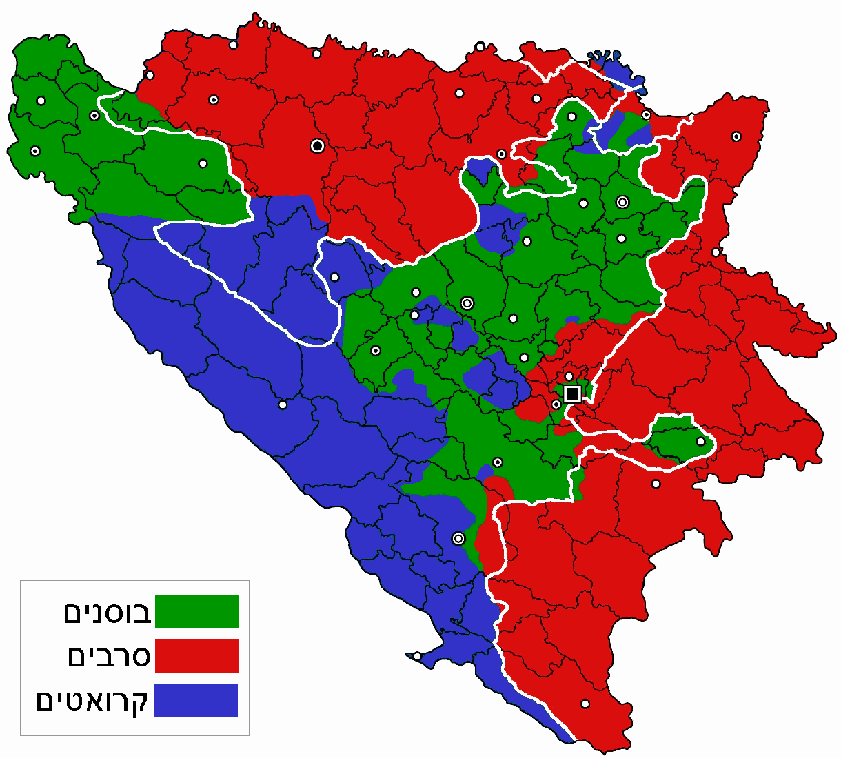 BiH territory posession just before Dayton